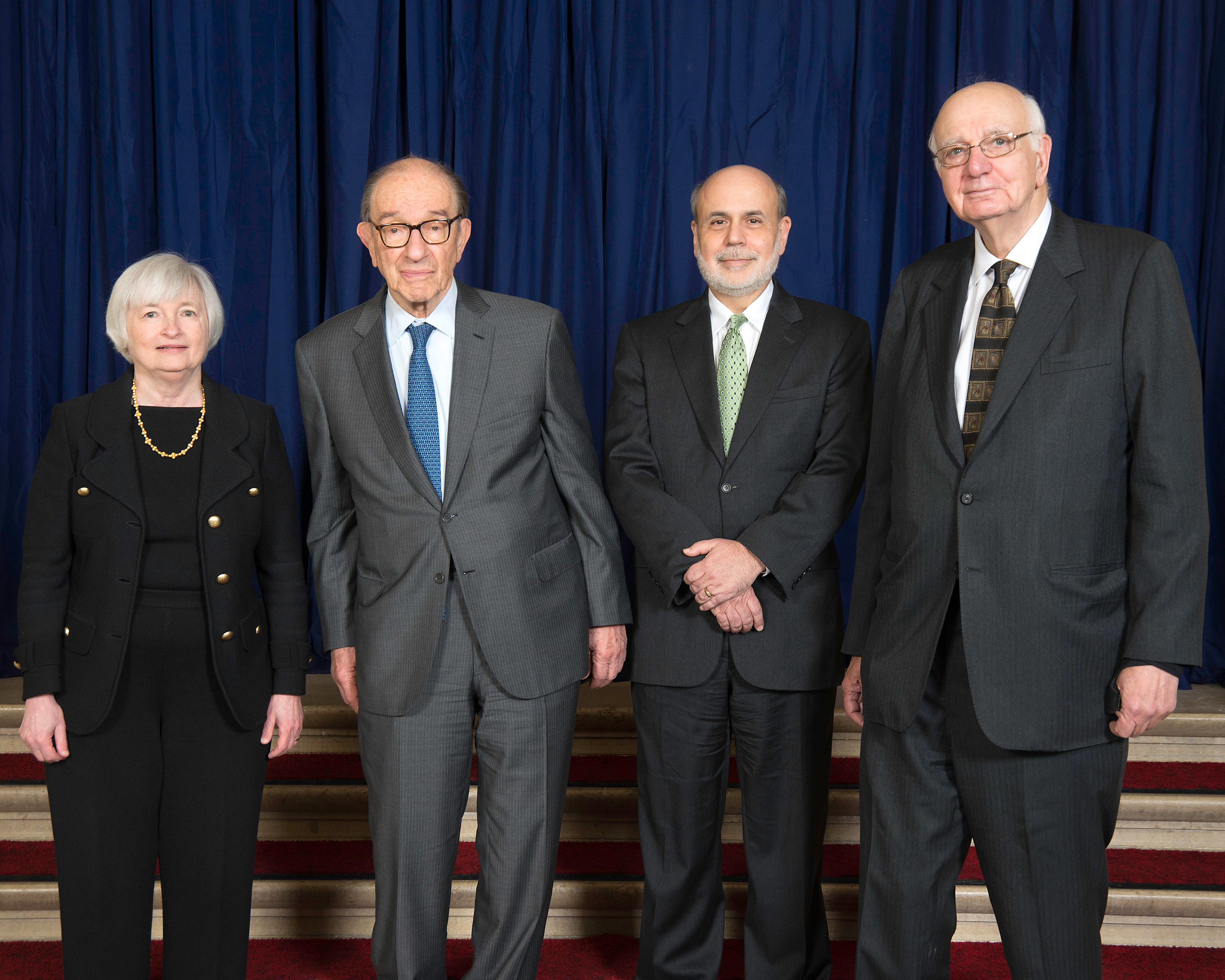 Current and Former Chairmen and then Vice Chair (Left to Right: Janet L. Yellen; Alan Greenspan; Ben S. Bernanke; Paul A. Volcker)